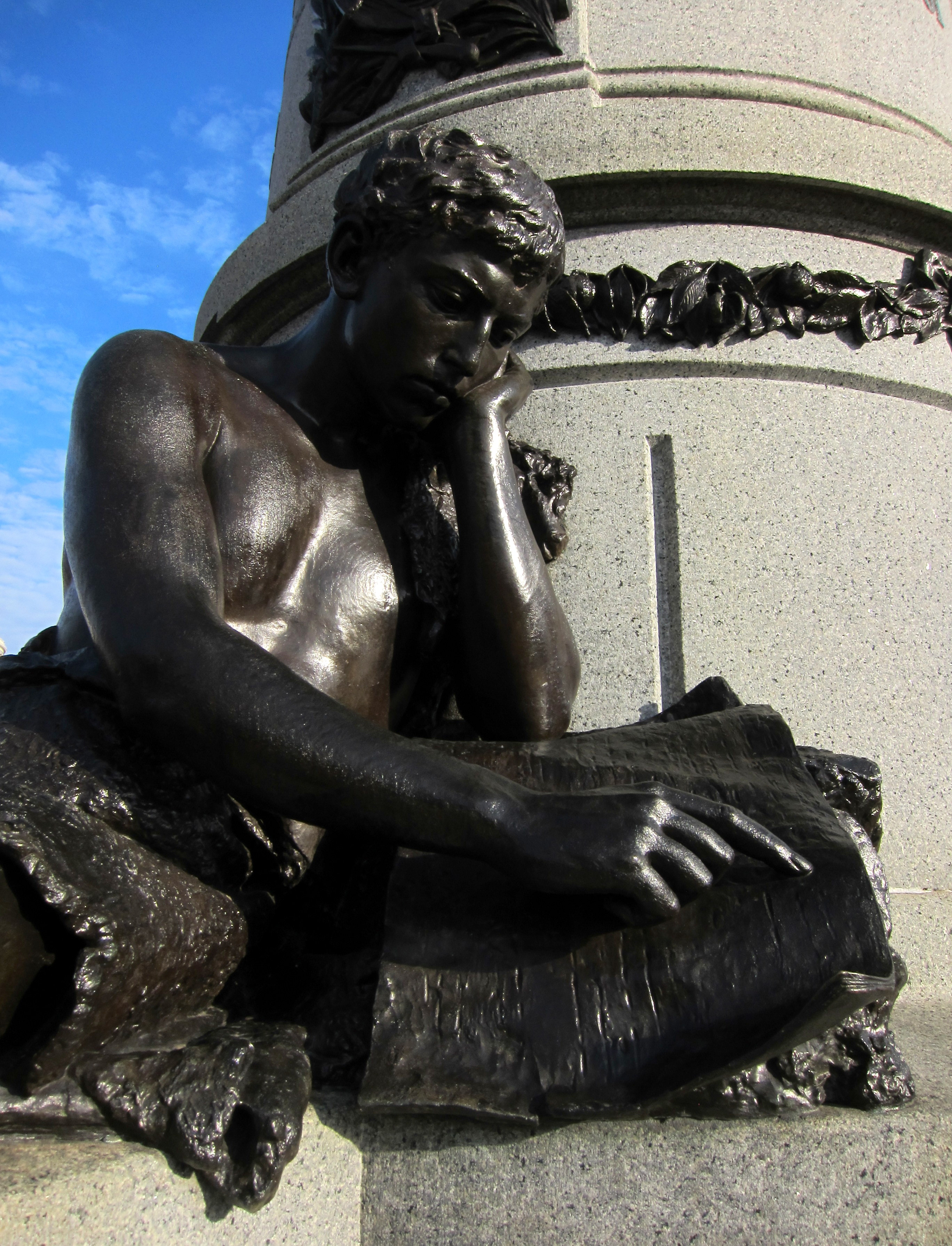 James A. Garfield Monument in Washington, D.C.